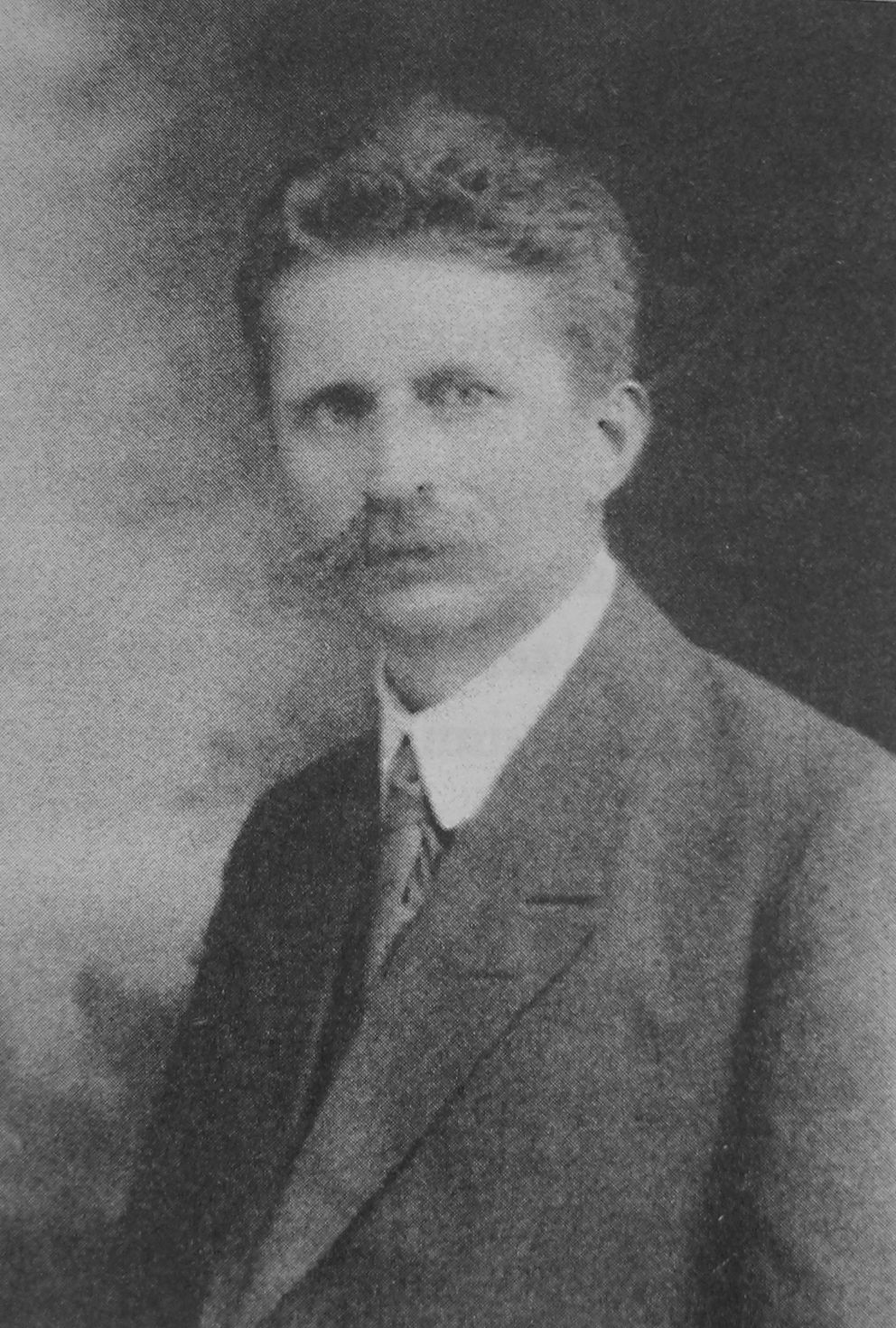 Emil Zillmann (1870–1939), German architect.